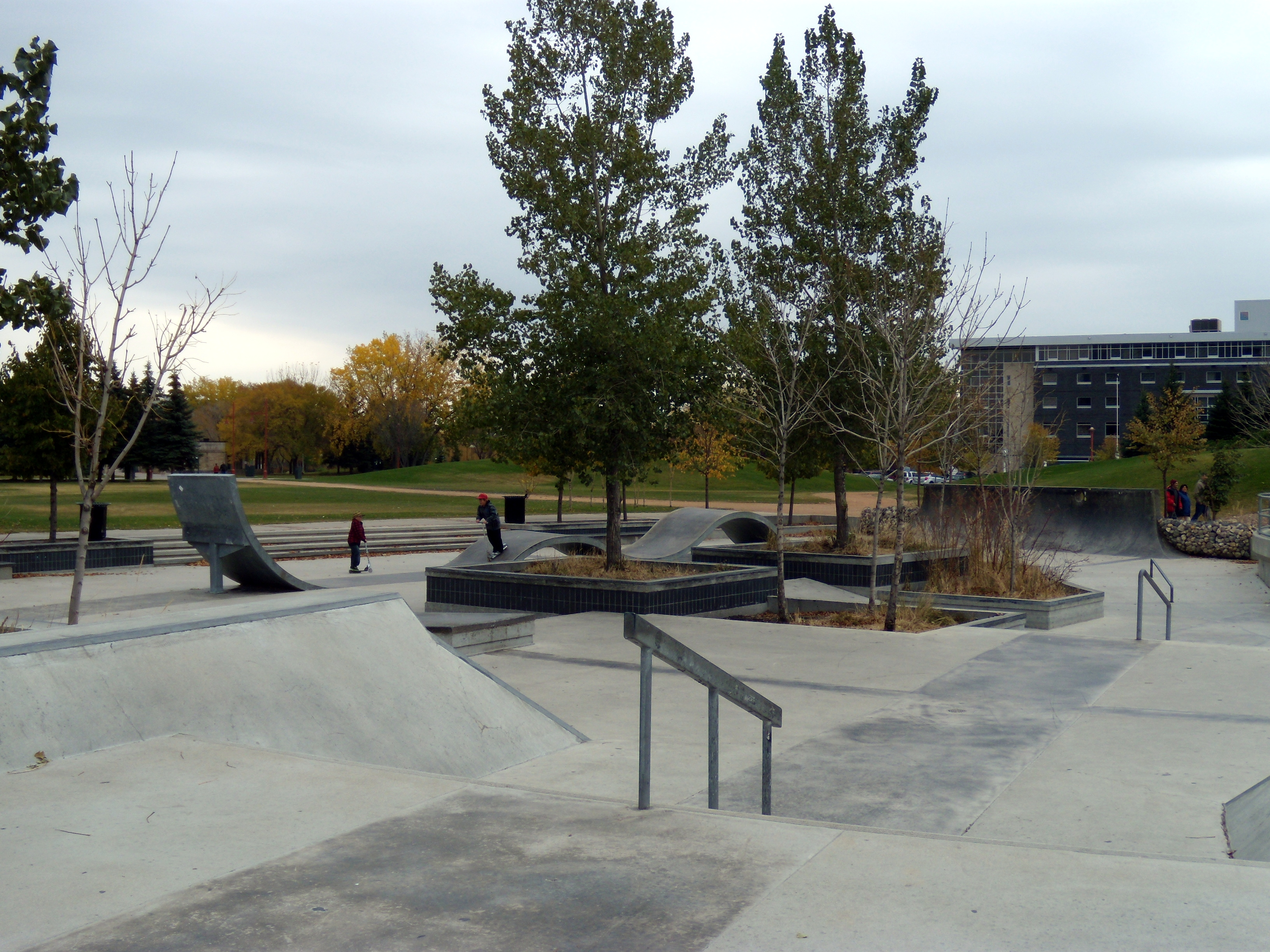 Plaza Skatepark in The Forks, Winnipeg, fall of 2012